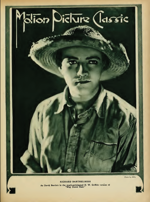 Richard Barthelmess in Way Down East (1920) in Motion Picture Classic.